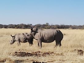 Rhino in Namibia This is an image from Namibia